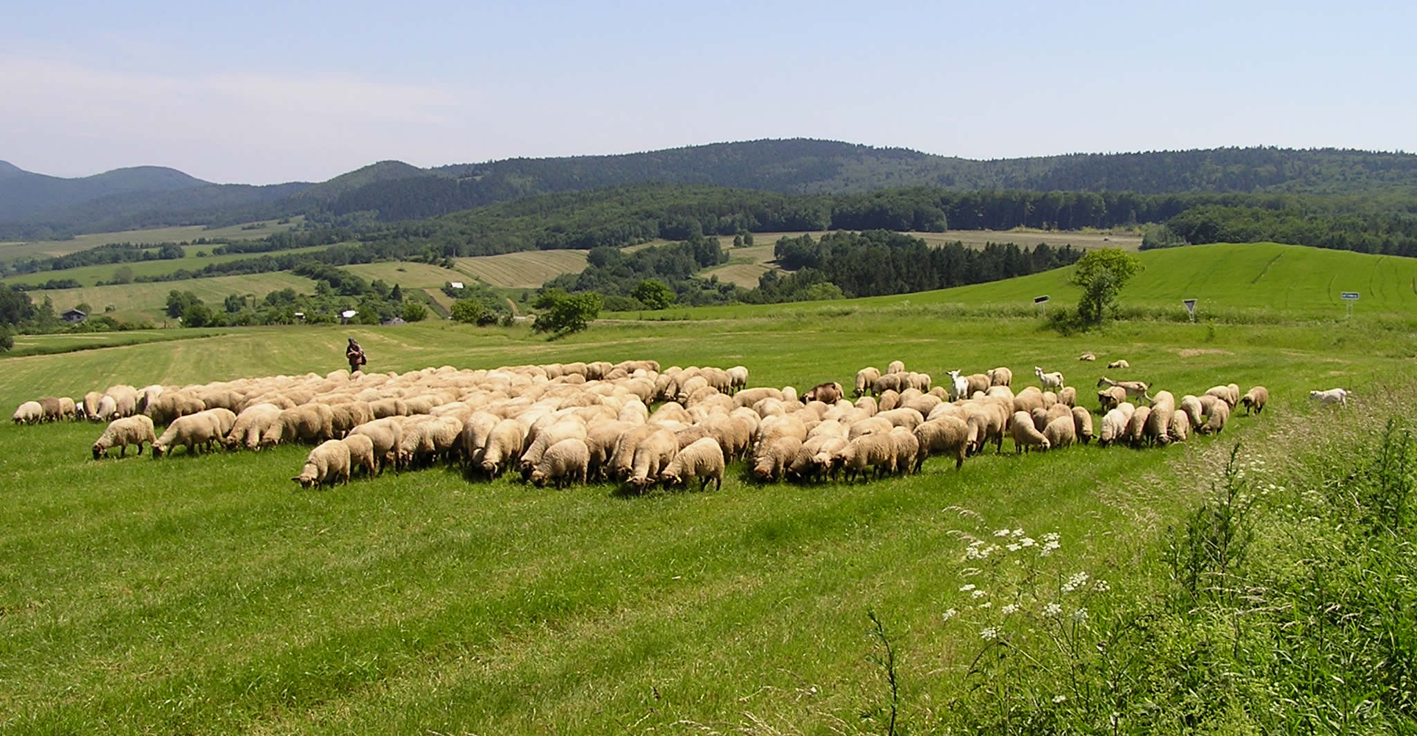 Slovensko, okres Prešov, región Šariš, obec Klenov, sheeps on the slope